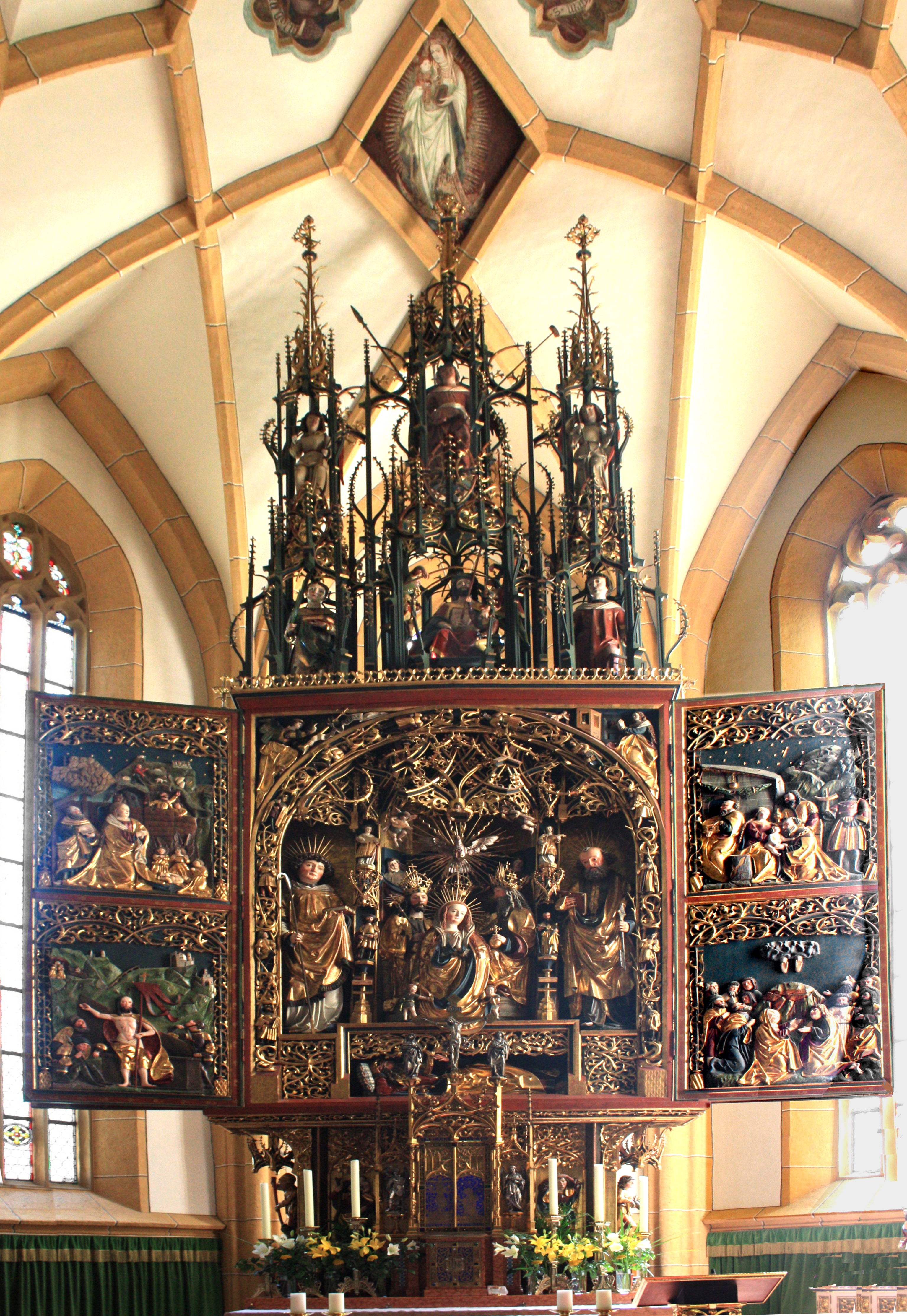 Parish church Saint Vinzenz - Main altar Locality: Heiligenblut Community:Heiligenblut